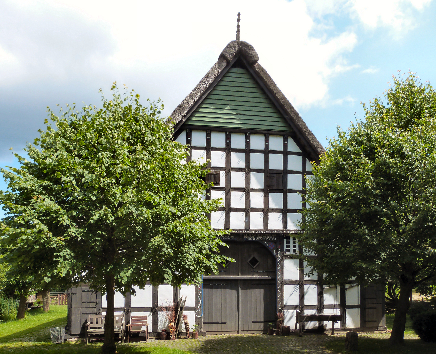 Listed timber-framed house from 1727, onto museum "Ruerups Muehle" grounds translocated from Hiddenhausen-Oetinghausen, Loher Strasse No. 6, Löhne